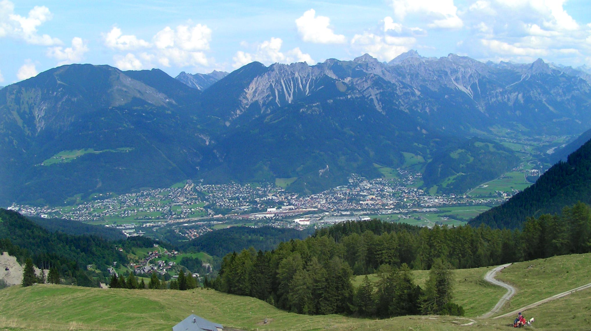 View of the vally around Bludenz / Austria. On the left side the village Nüziders and in the foreground the village Bürserberg. In the middle of the picture the town of Bludenz and in the foreground Bürs. On the right side the "Klostertal"- valley with the village Braz. Mountains: On the left side "Hoher Frassen", in the middle "Elserspitze", and on the right side "Roggelskopf"